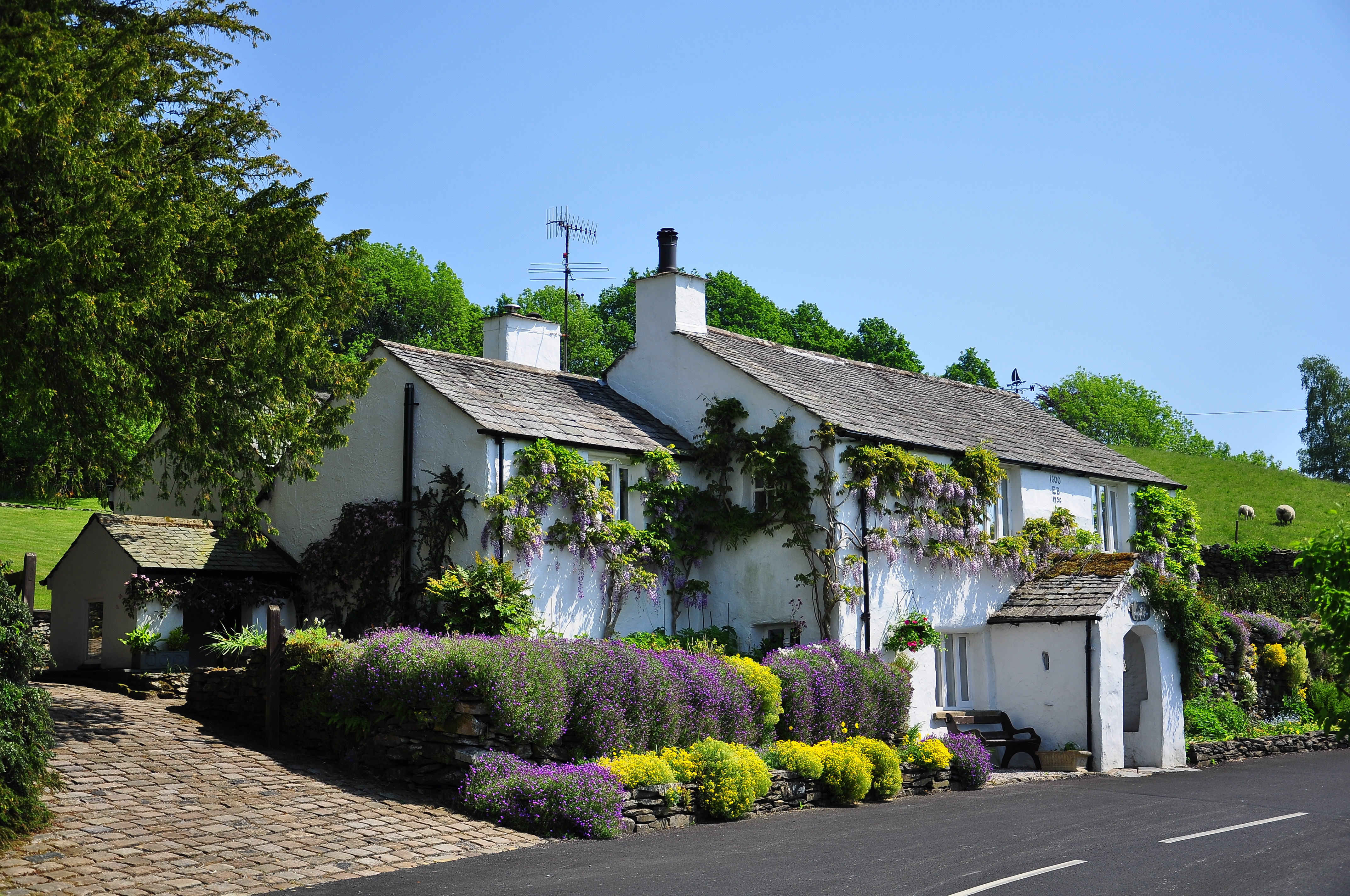 Winster is a charming English lake district village near Kendal.